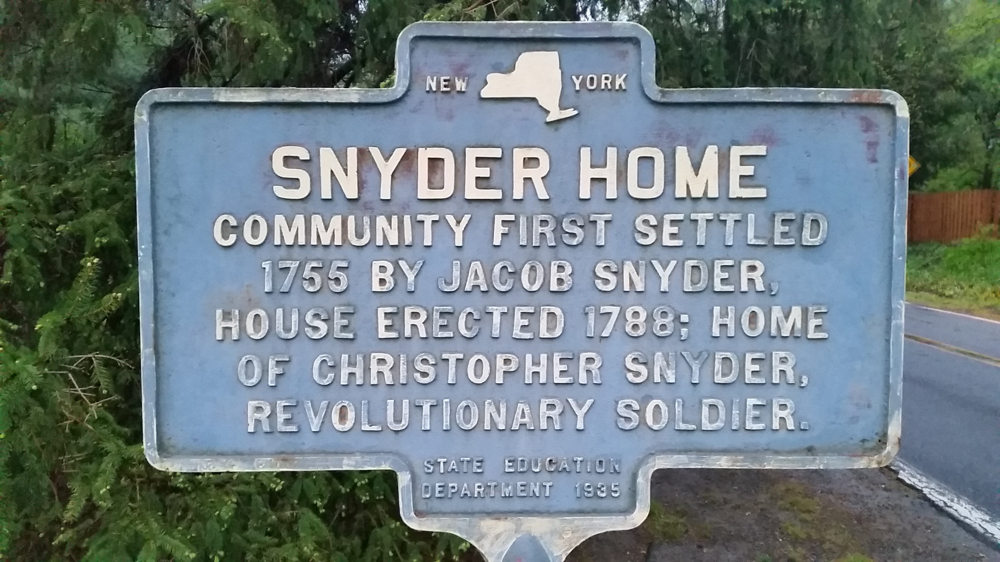 NY State Historical marker for the Snyder Home